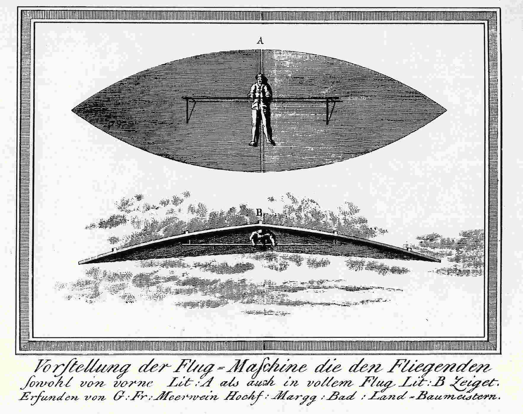 Flying apparatus of Carl Friedrich Meerwein.